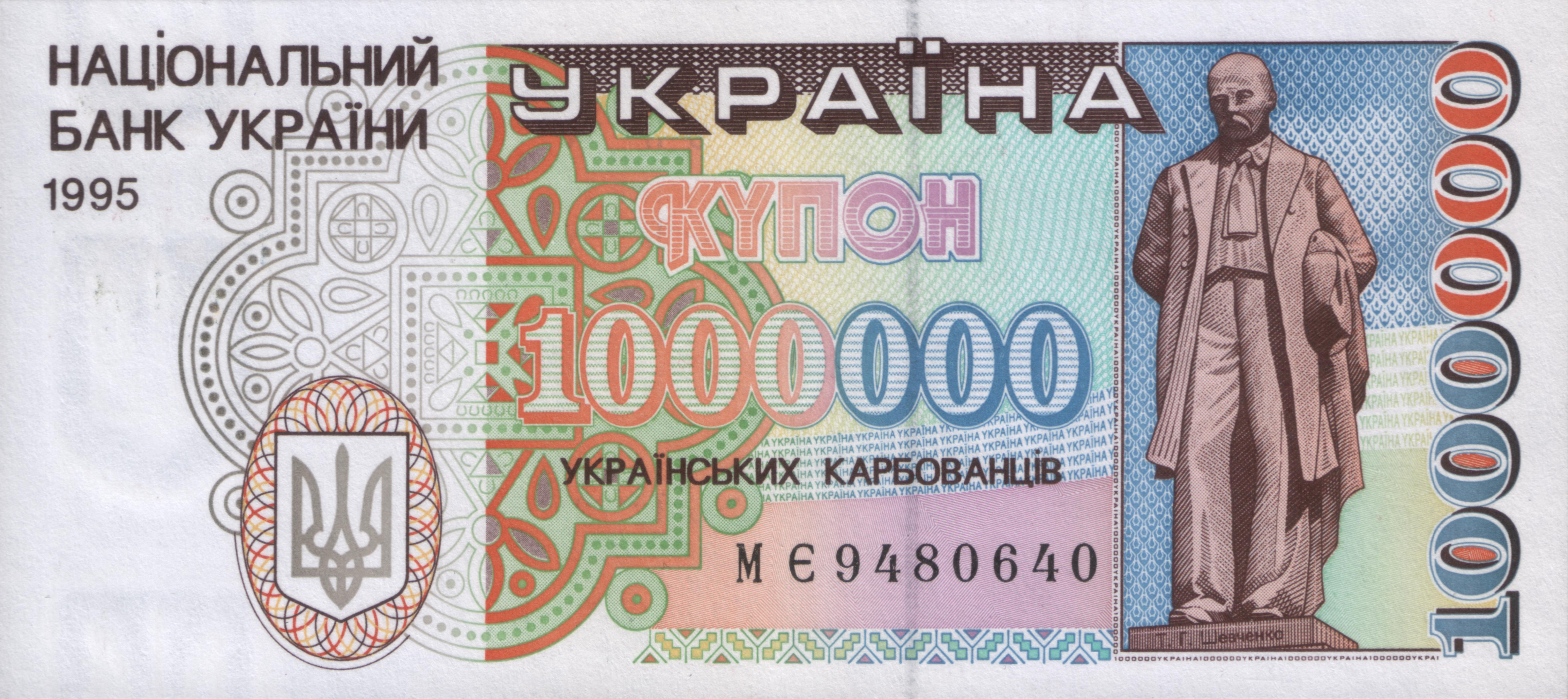 1000000 karbovanets (1995)